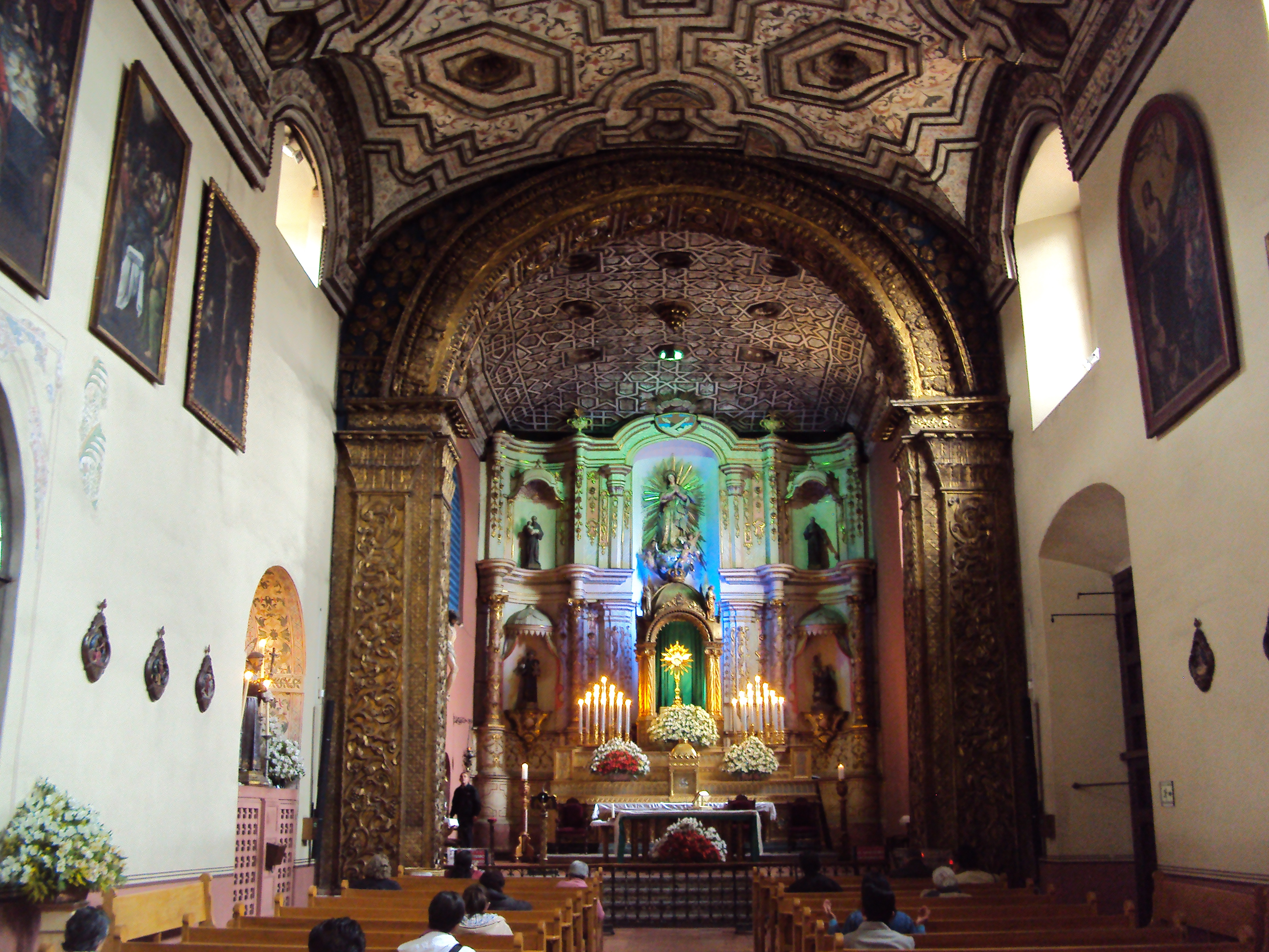 The interior of the Iglesia de la Concepción